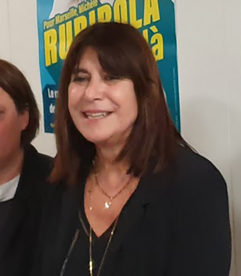 Michèle Rubirola, "Printemps Marseillais" candidate